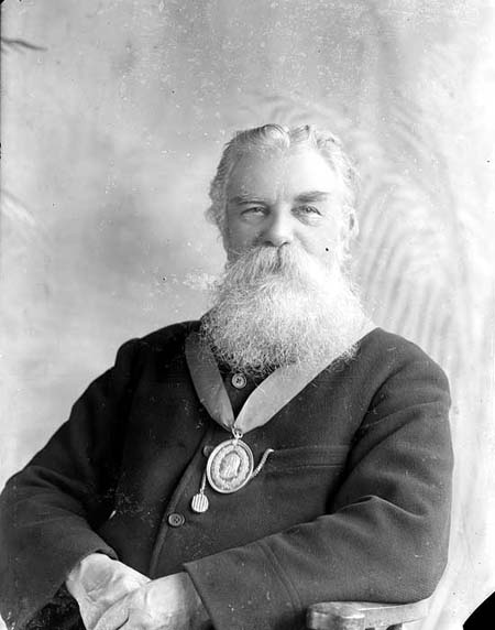 Henry Taunt, A O F. A portrait of Henry Taunt wearing a medal of the Ancient Order of Foresters of which he was a leading local member.